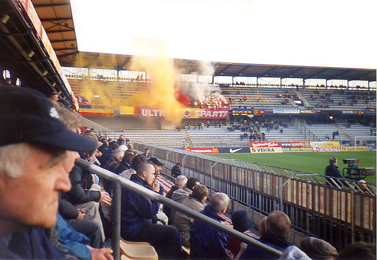 AXA Stadium, Sparta Prag